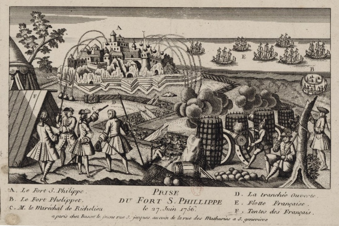 Siege and capture of Fort St. Philip in Minorca in 1756 after the successful landing of the troops of Marshal Richelieu, and the naval victory of La Galissonière against Admiral Byng.